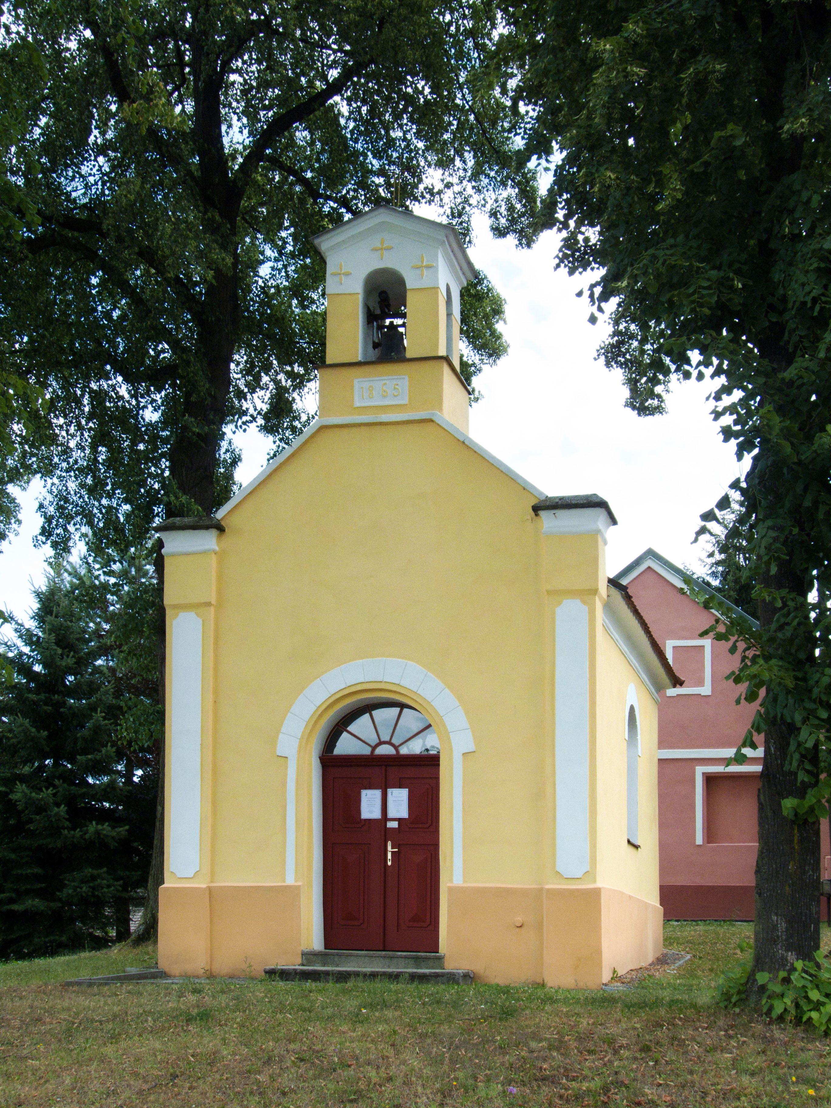 Saint Florian chapel in the village of Hůry, České Budějovice District, Czech Republic.